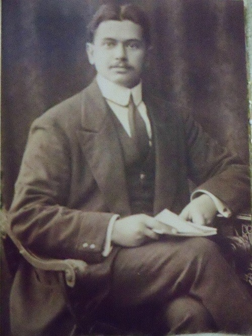 Asaf Bespinar, sports manager and founder of Fenerbahce.